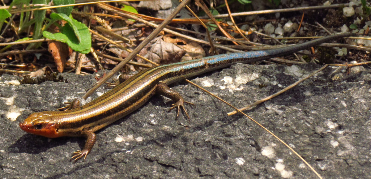 Five-lined Skink (Plestiodon fasciatus), Petroglyphs Provincial Park, Ontario, Canada